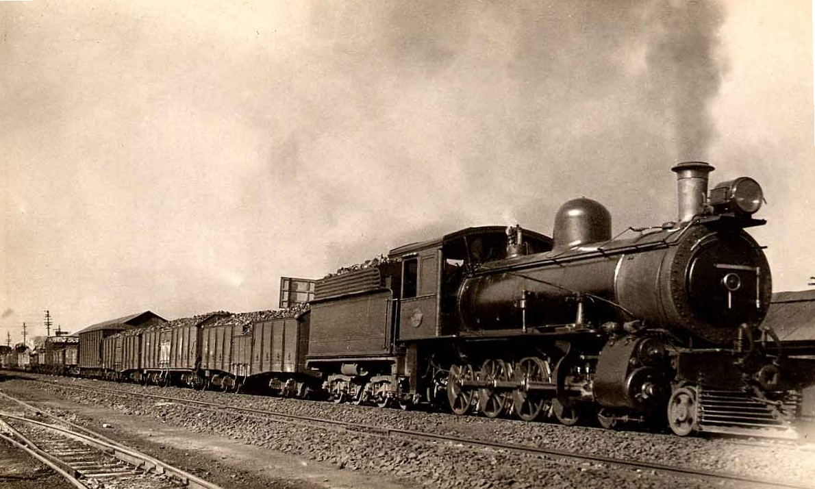 SAR Class 8 (4-8-0) Location: Braamfontein yard